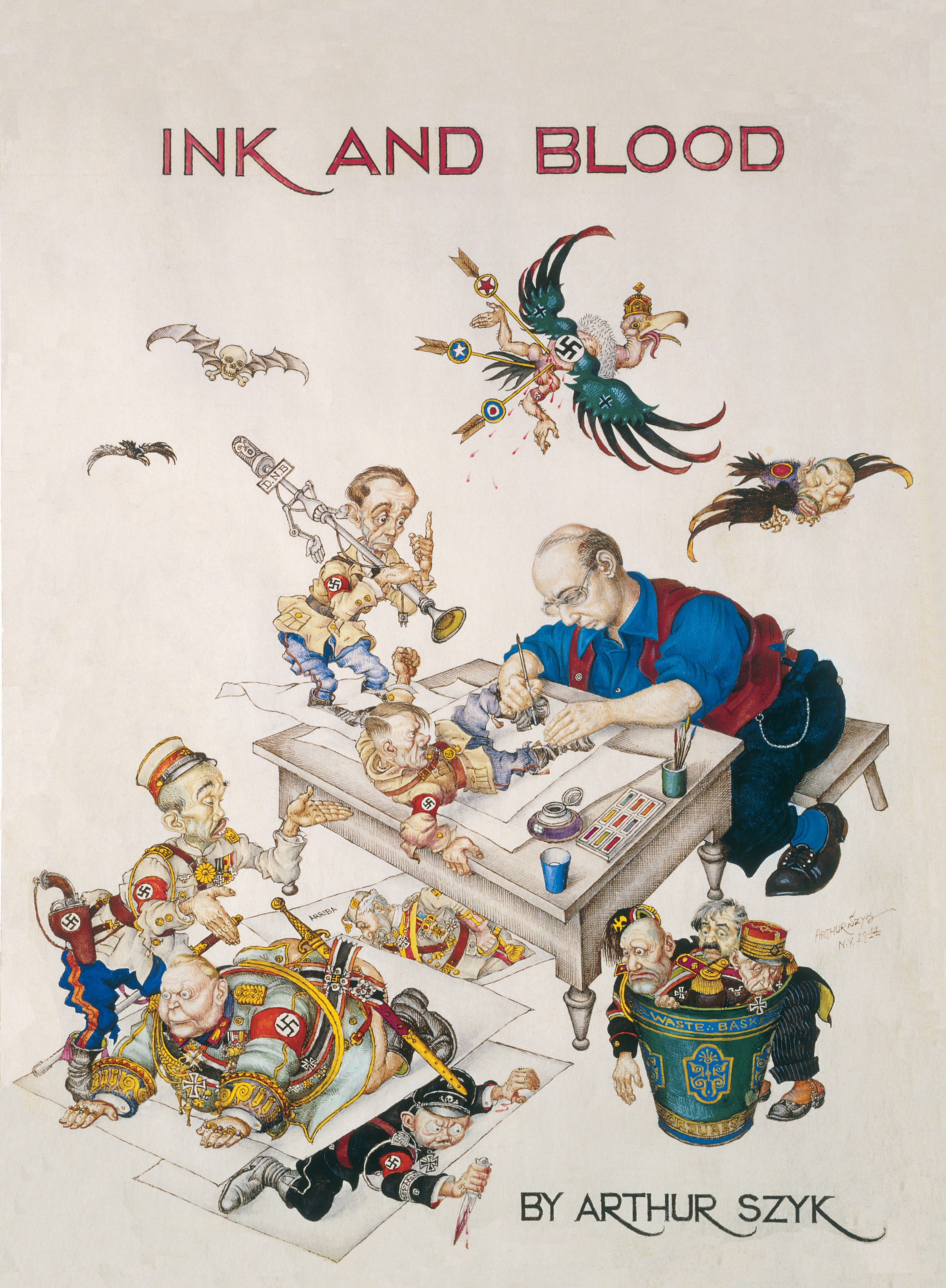 Full color frontispiece to the volume Ink & Blood (New York: Heritage Press, 1946), a collection of Szyk's wartime caricatures. The artist depicts himself at work drawing the villains of the Axis Powers, who come to life as soon as they are set to paper.